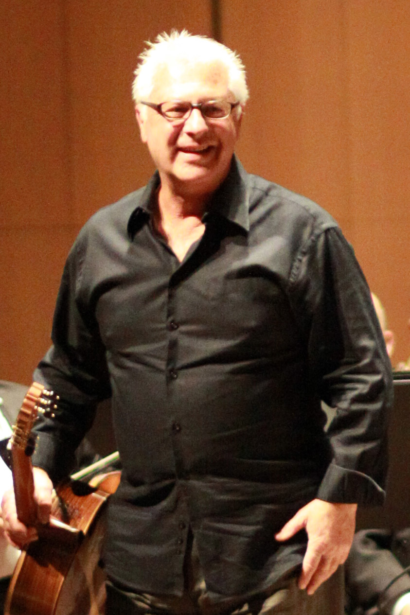 Angel Romero. Concert with Israel Philharmonic Orchestra. Tel Aviv, May 13, 2012